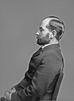 William Temple Hornaday um 1890